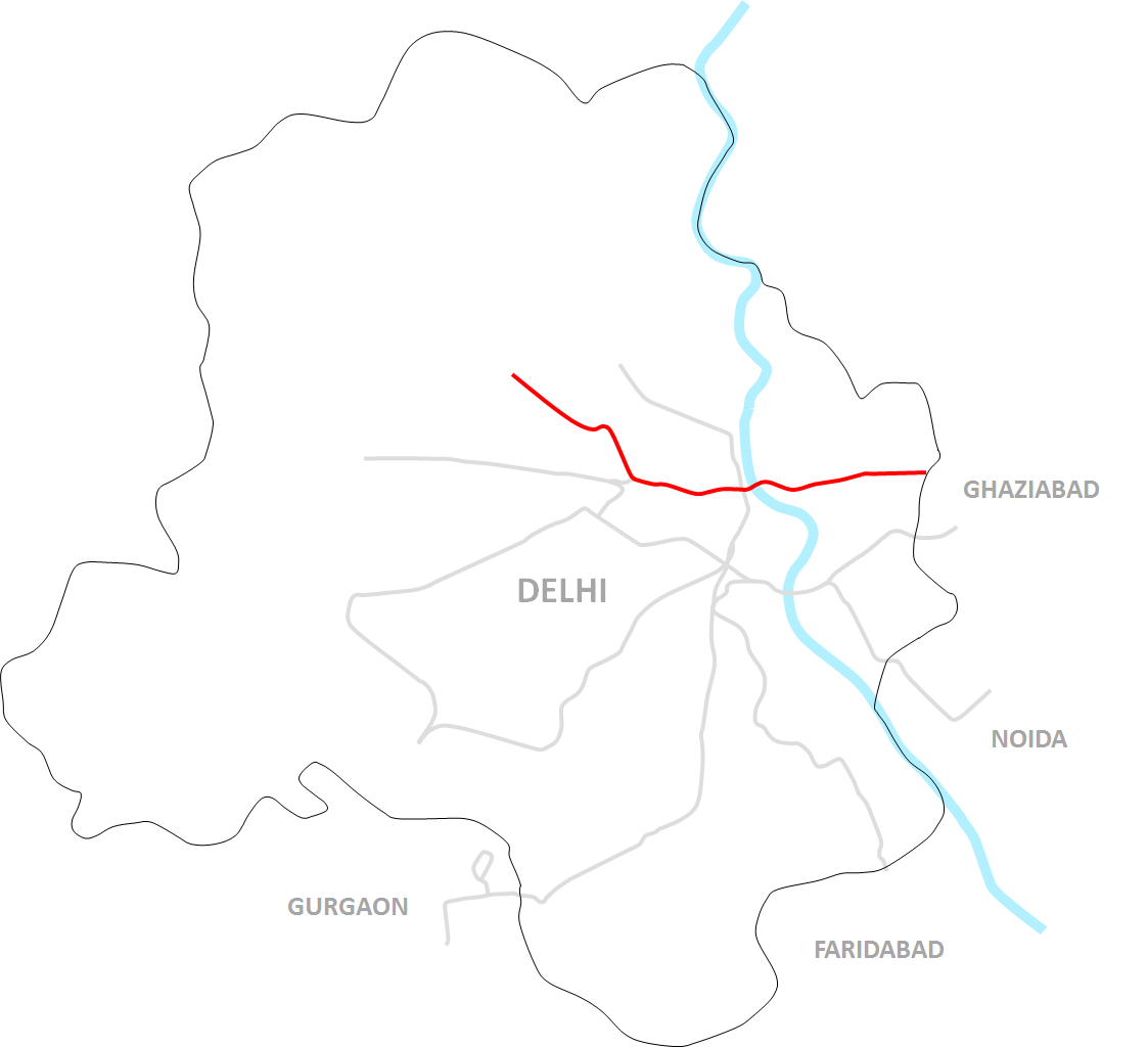 Red line within Delhi metro network